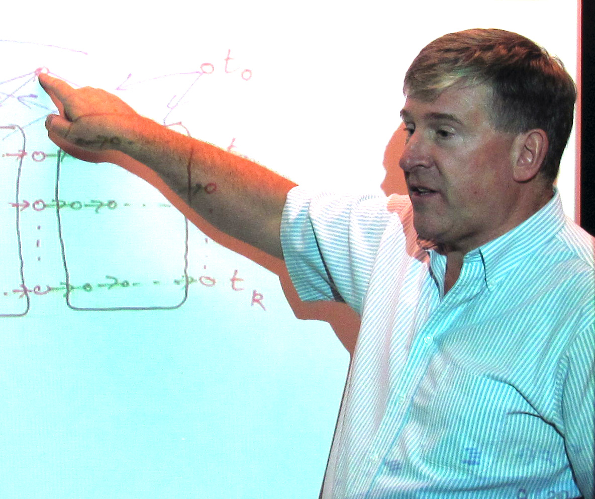 Paul Seymour giving a talk at Columbia University in 2010.